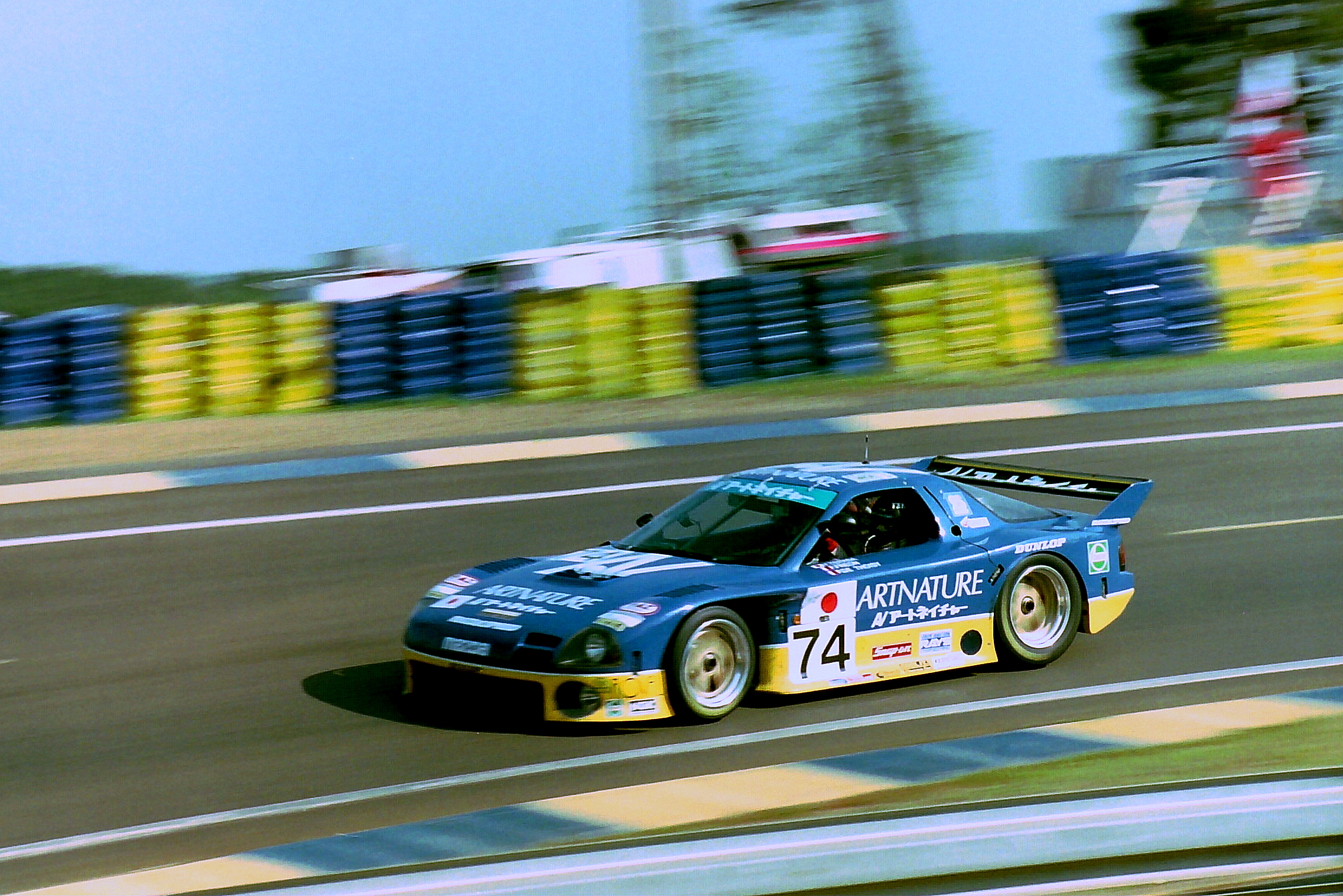 Mazda RX-7(Fabcar) - Youjirou Terada, Franck Freon & Pierre de Thoisy enters the Esses at the 1994 Le Mans